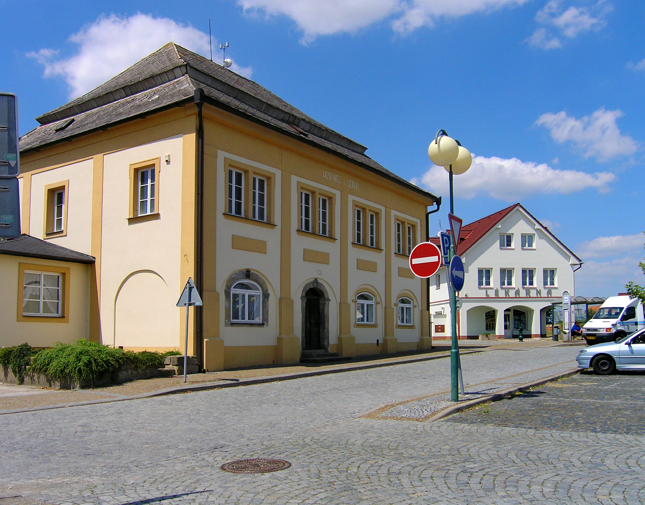 Na Rynku square in Kněžmost, Czech Republic